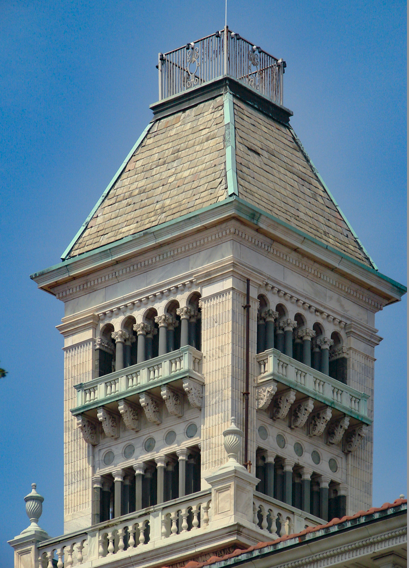 Top of the bell tower of the Tomochichi Federal Building and US Courthouse in Savannah, Georgia.